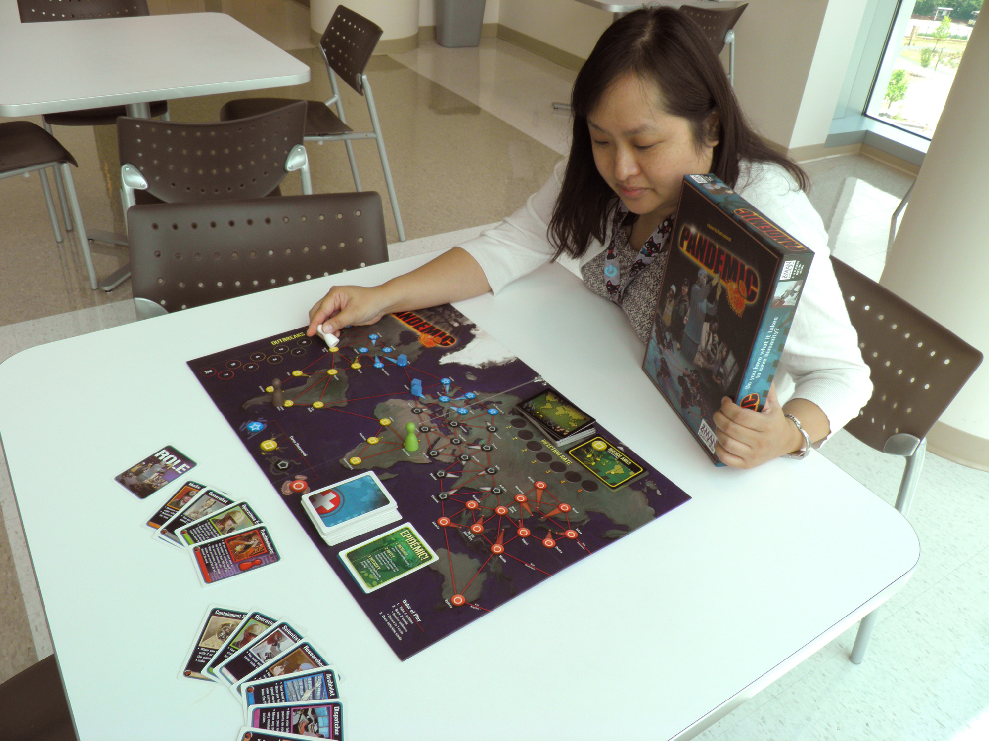 Overview of the board game Pandemic.